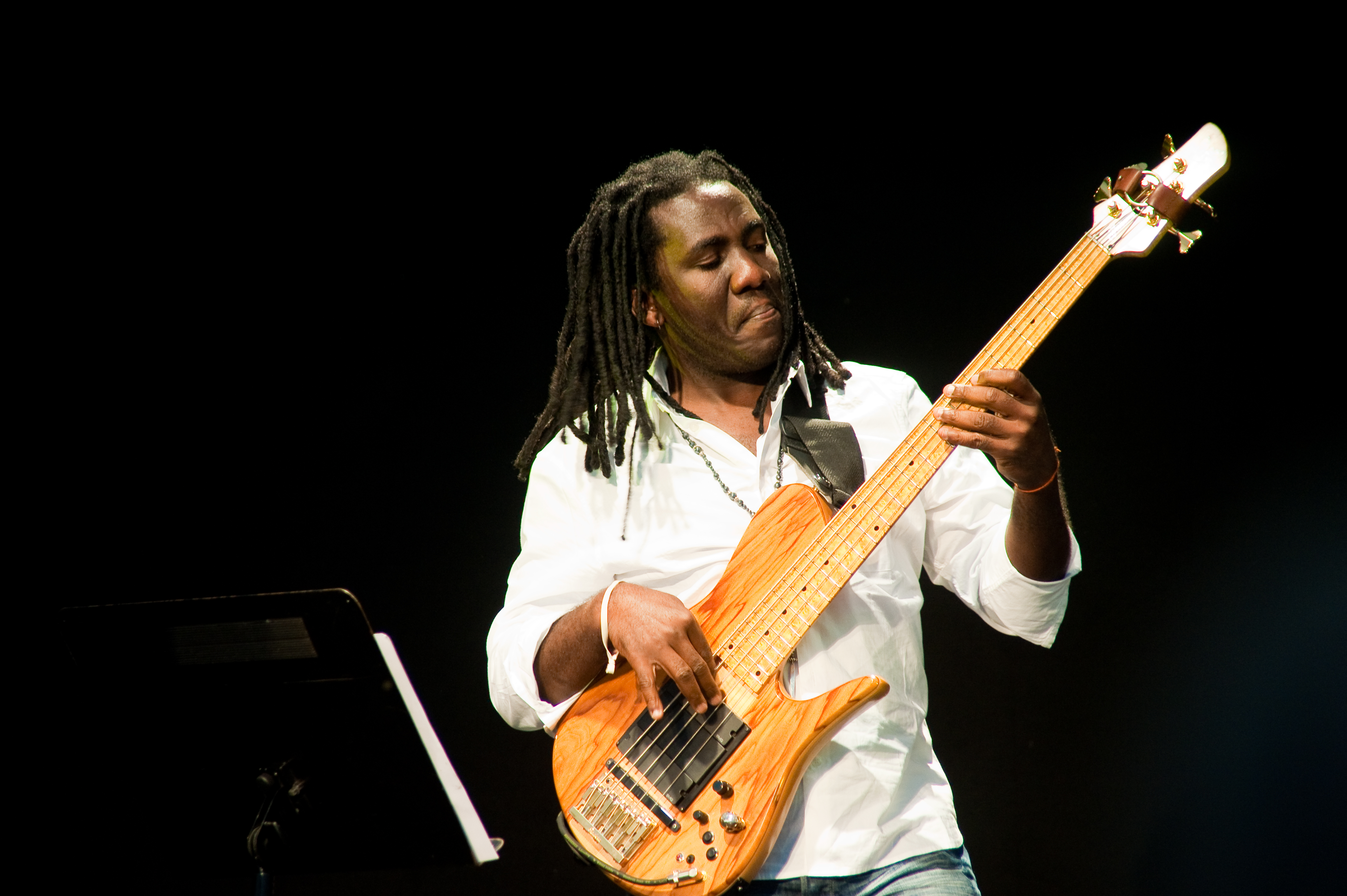 The fastest man in town... Billboard magazine said of Bona, “Richard Bona is the hottest electric bass player since Jaco Pastorius – and the first since that past master with the potential for solo stardom.”